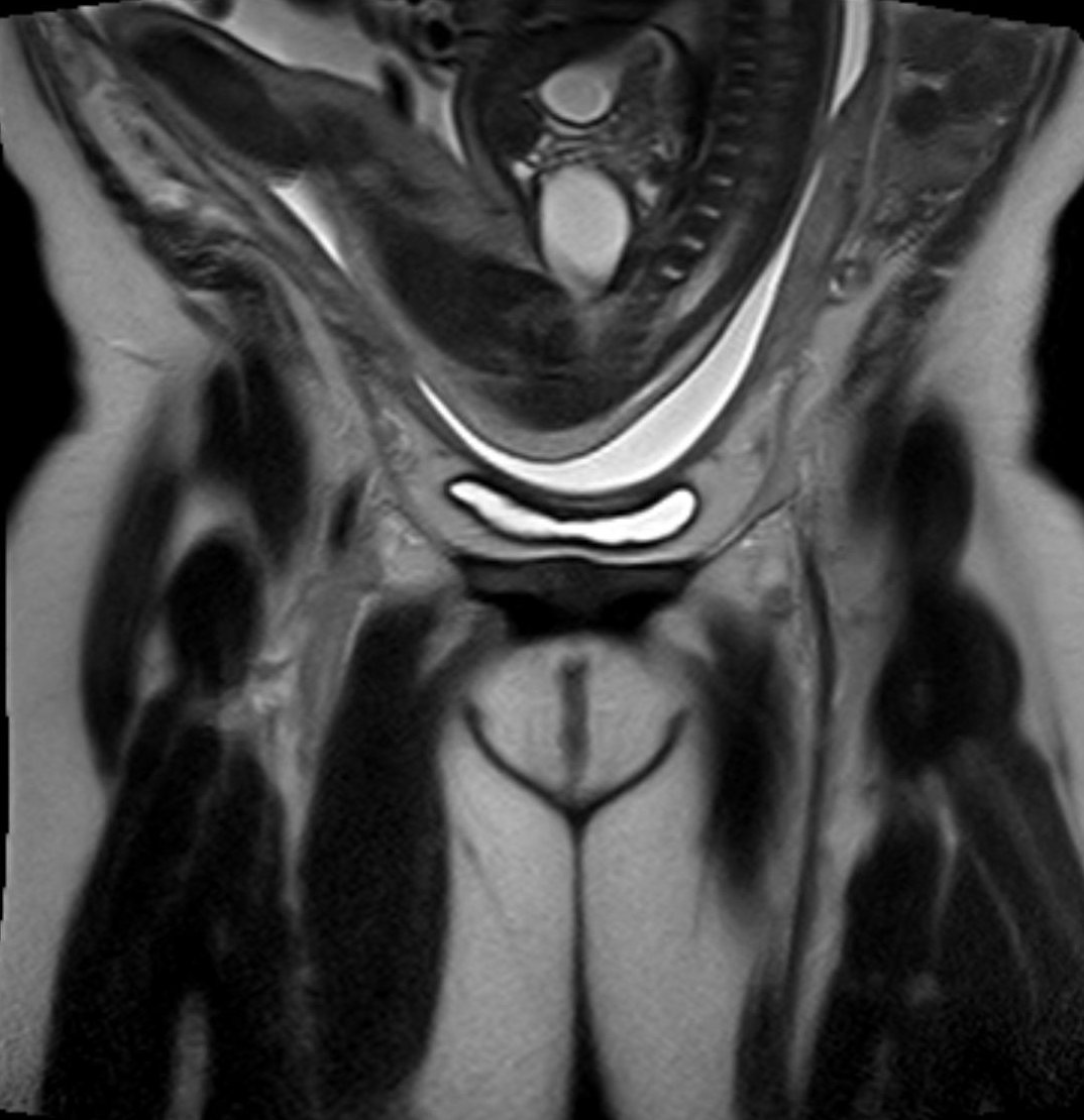 Breech presentation seen on MRI. The bladder of the mother is visible through the uterus from above, as the concave bright-enhancing structure above the pubic bone. Amniotic fluid within the amniotic sac lies above it, also brightly enhancing. The bladder and stomach of the fetus are full. The legs of the fetus are facing to the right in the uterus (left-hand side of the image), with the vertebral column to the left.